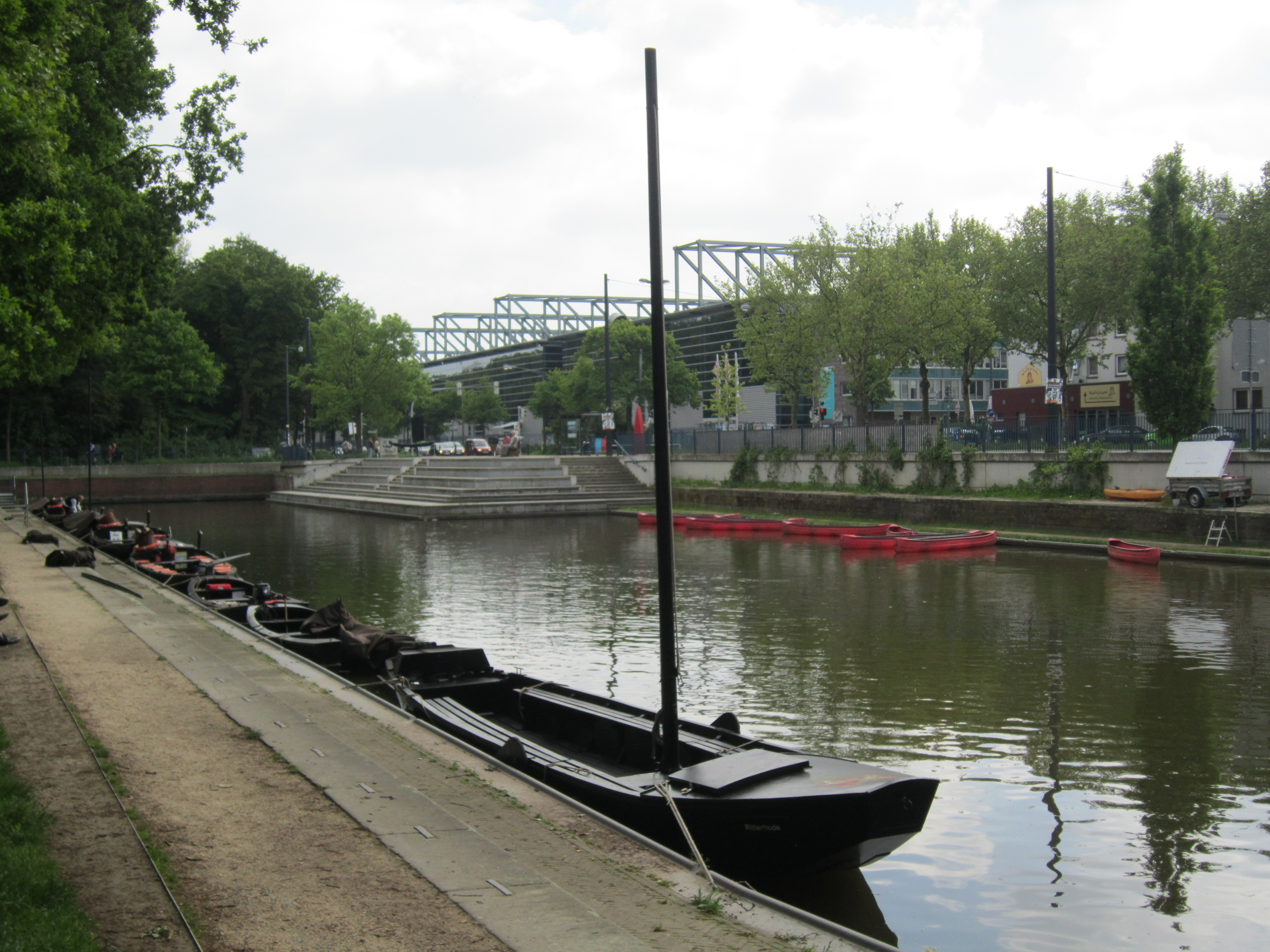 Peat port in Findorff (City of Bremen)